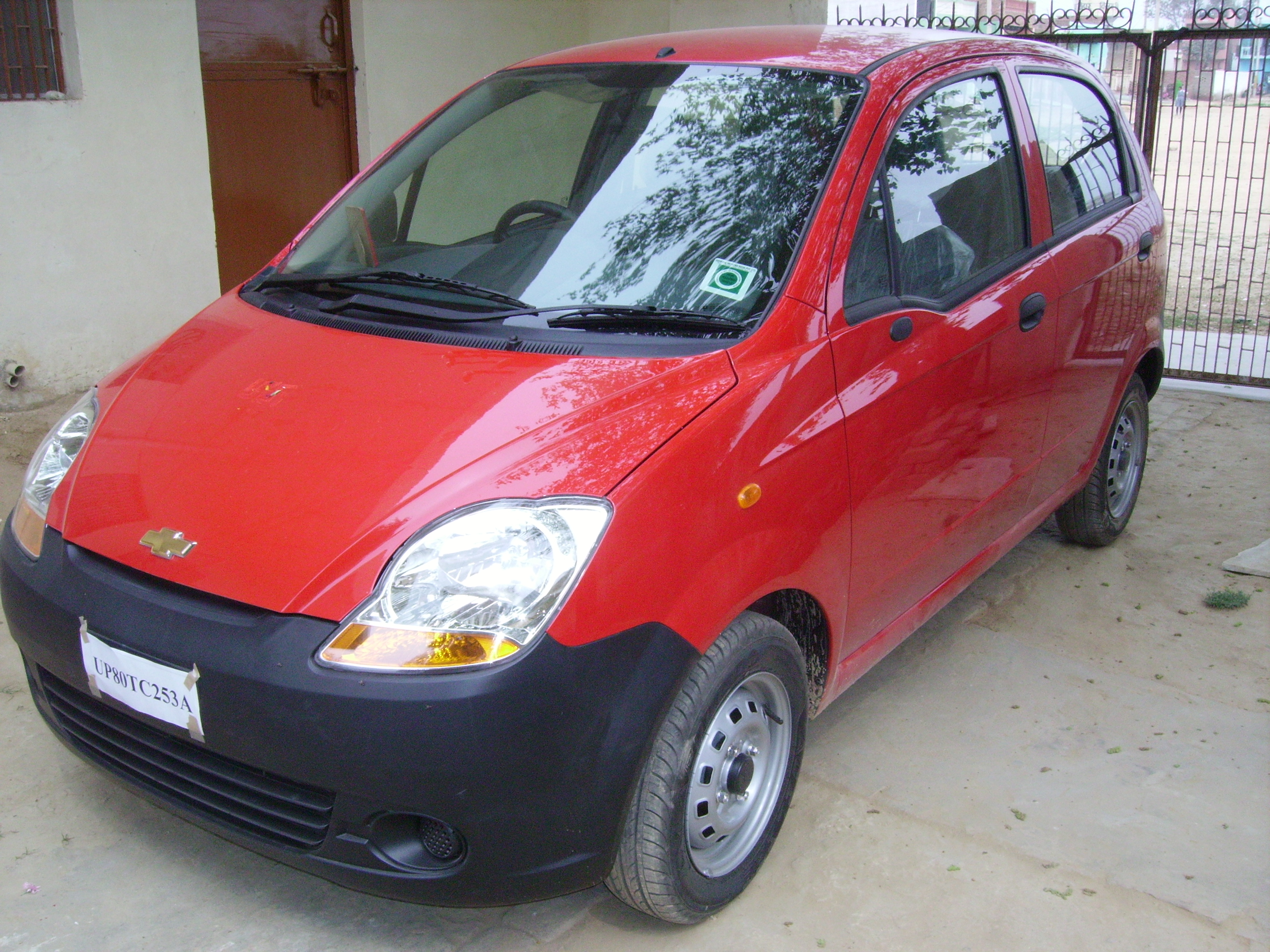 Chevrolet Spark - As sold in India